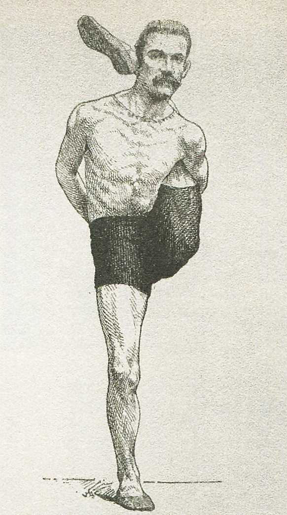 Man standing in a pose close to Durvasasana in hatha yoga. Figure 12 from Thomas Dwight's "The Anatomy of a Contortionist", Scribner's Magazine, April 1889, p. 498